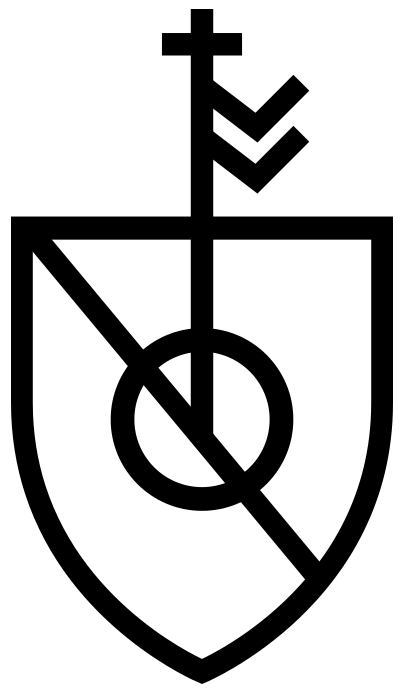 Merchant's mark of William Greville (d.1401) of Chipping Campden, as seen on his ledger stone in Chipping Campden Church. Illustrated in Davis, Cecil T., Monumental Brasses of Gloucestershire, Gloucestershire Notes & Queries, London, 1899, p.22[1]; Also illustrated in Elmhirst, Edward Mars, Merchants' Marks, ed. Dow, Leslie, Harleian Society, 1959, no.451, page 2, row 7.